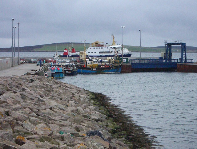 Loth Pier, Sanday. Looking along the pier at the Earl Sigurd, just arriving to take passengers to Kirkwall.